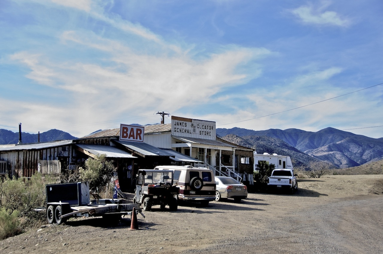 The small town of Cleator, Arizona, which consists of "five houses, two trailers, a general store and, obviously, a bar"